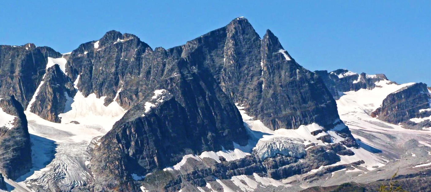 Mt Macduff